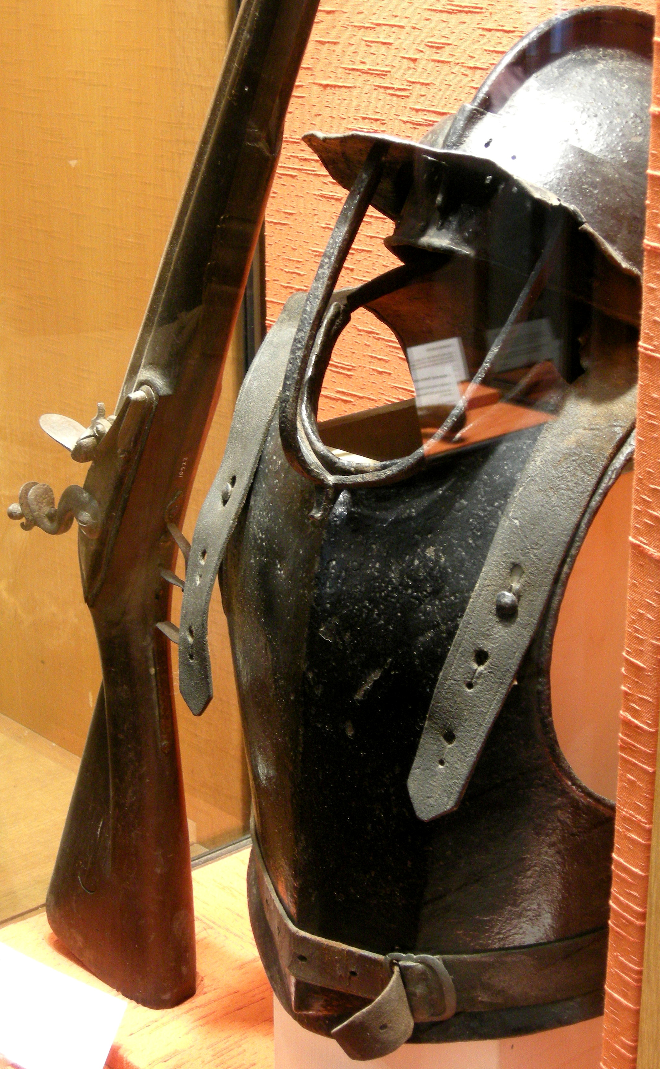 West Gate Towers and Museum, St Peter's Street, Canterbury, Kent. English Civil war armour and flintlock musket.